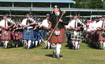 Massed bands at the 2005 Pacific Northwest Highland Games. The drum major is Teresa Unkrur of the Tacoma Scots Pipe Band.